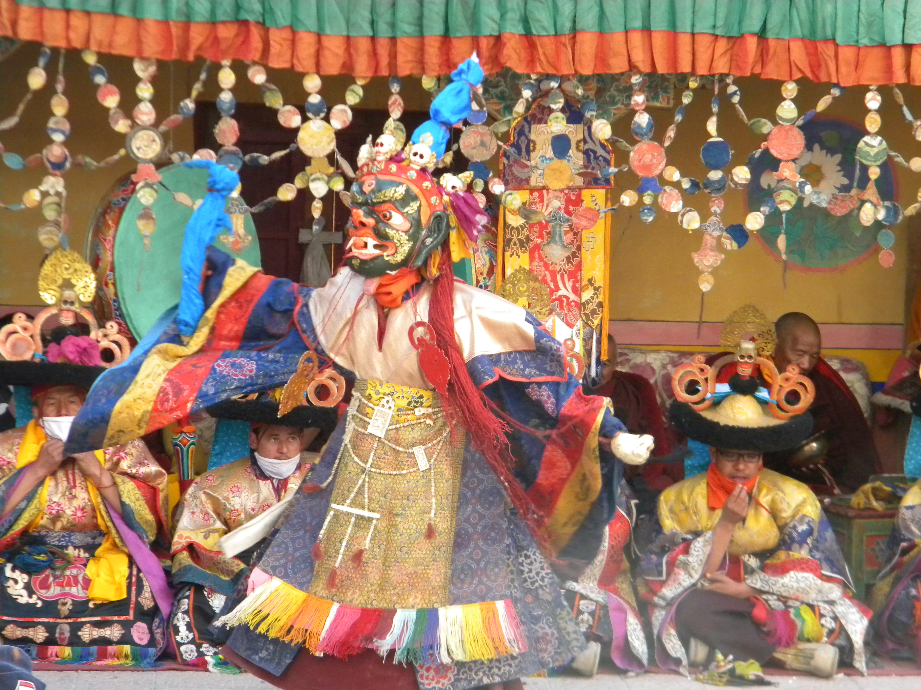 Cham dance of Spituk Monastry during Gustor Festival, 2014